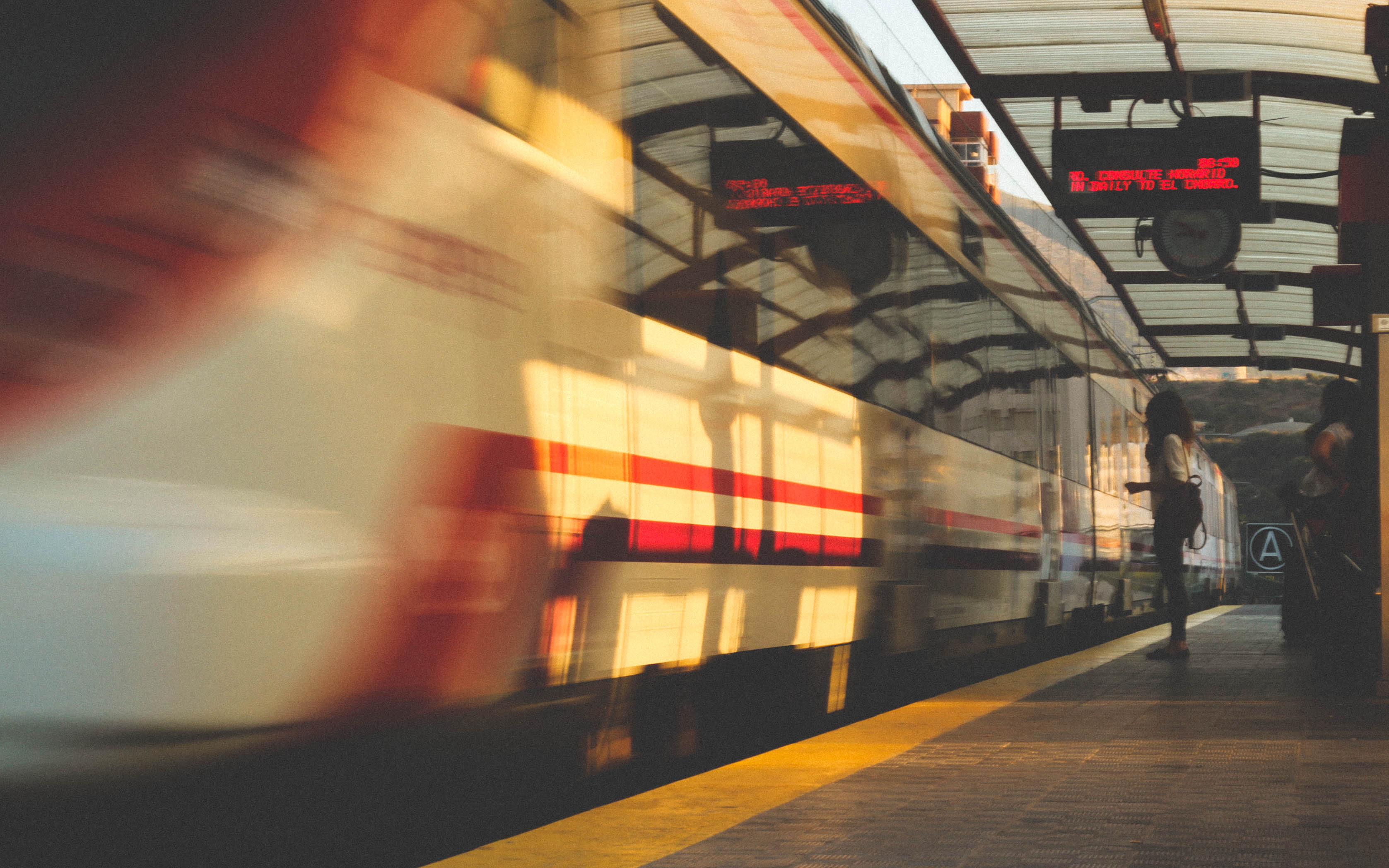 Los Boliches Train Station, Fuengirola, Málaga, Spain.